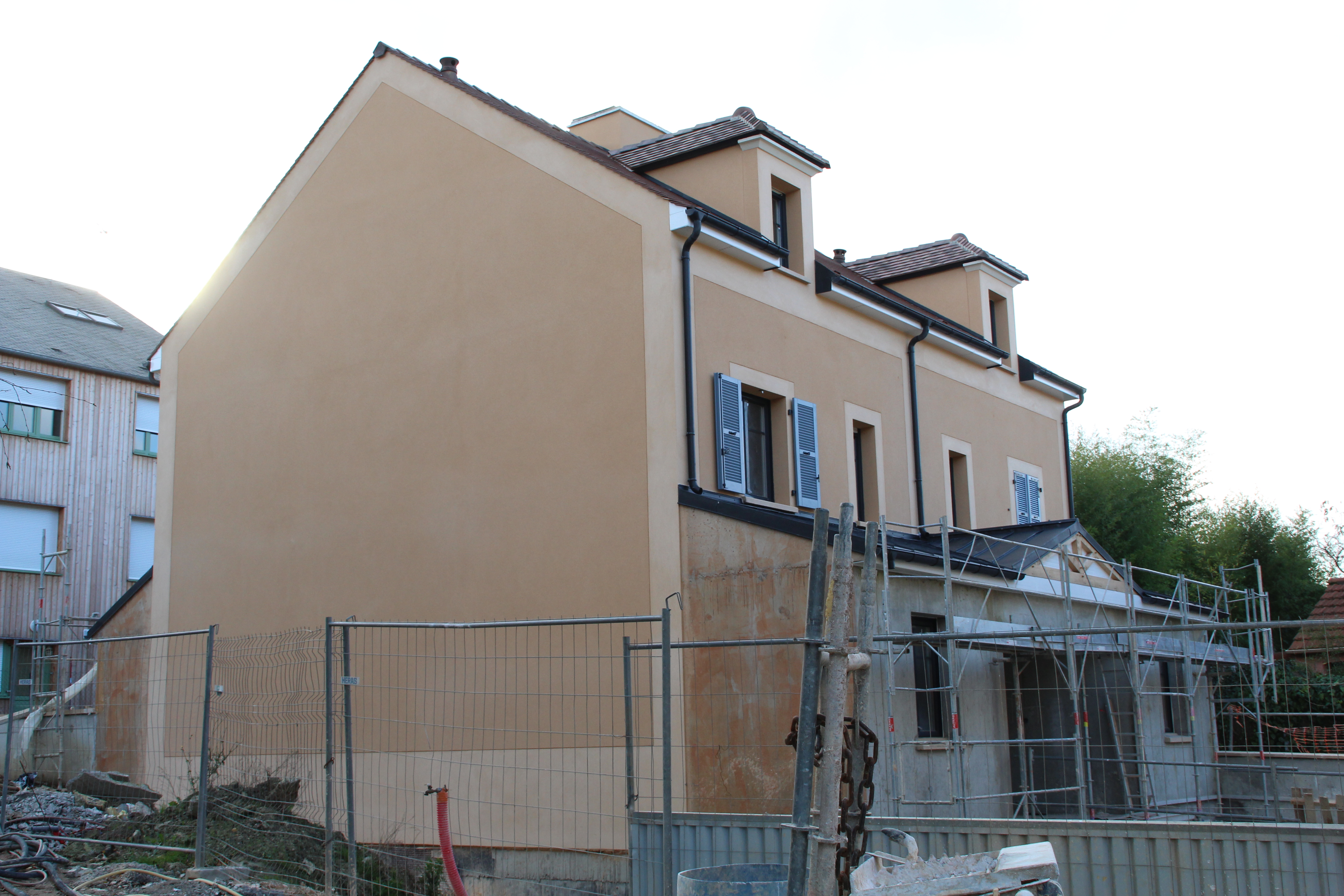 Construction site at 20 Pierre Chesneau street in Saint Rémy lès Chevreuse, France